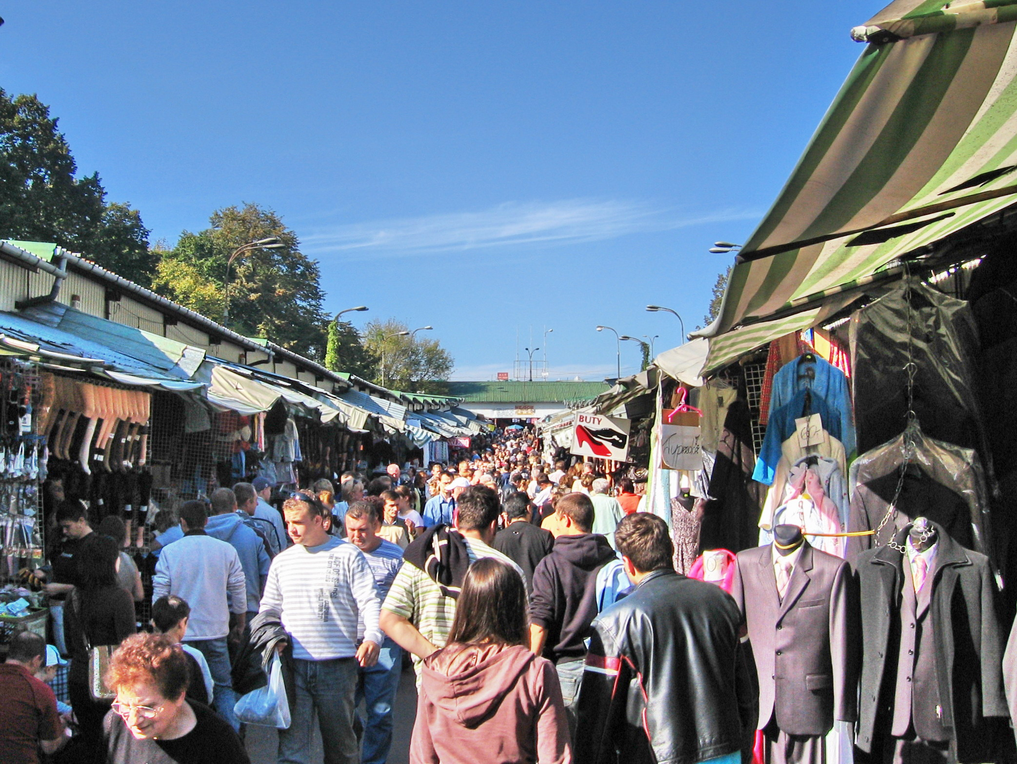 Last day of the market at Stadion X-Lecia , Warsaw, Poland